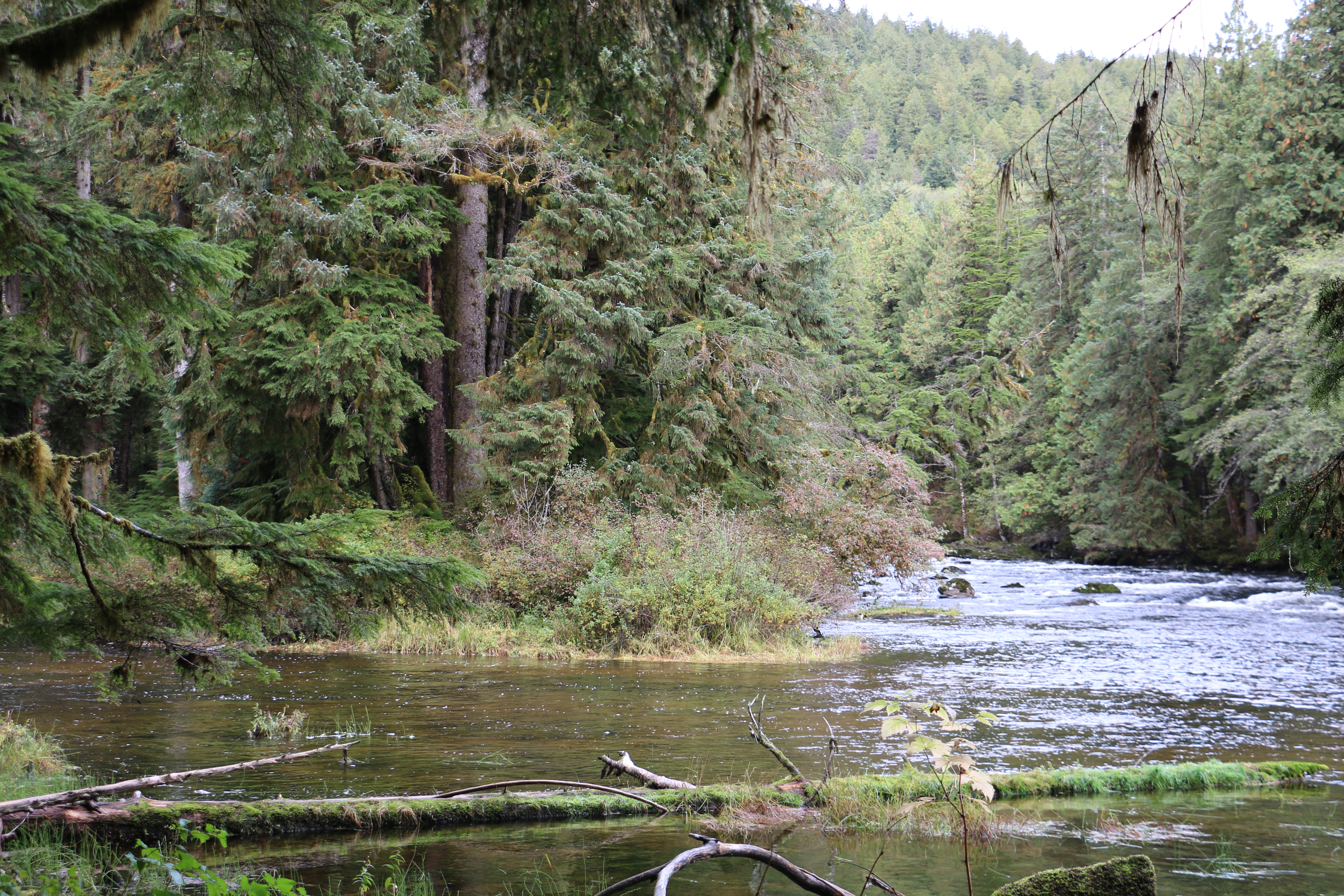 The Canoona River, on Princess Royal Island, on British Columbia's Central Coast.